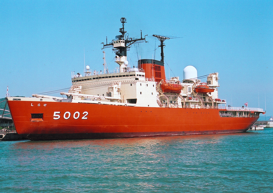 Japanese Icebreaker Shirase (AGB-5002) at the Port of Takamatsu in Japan.